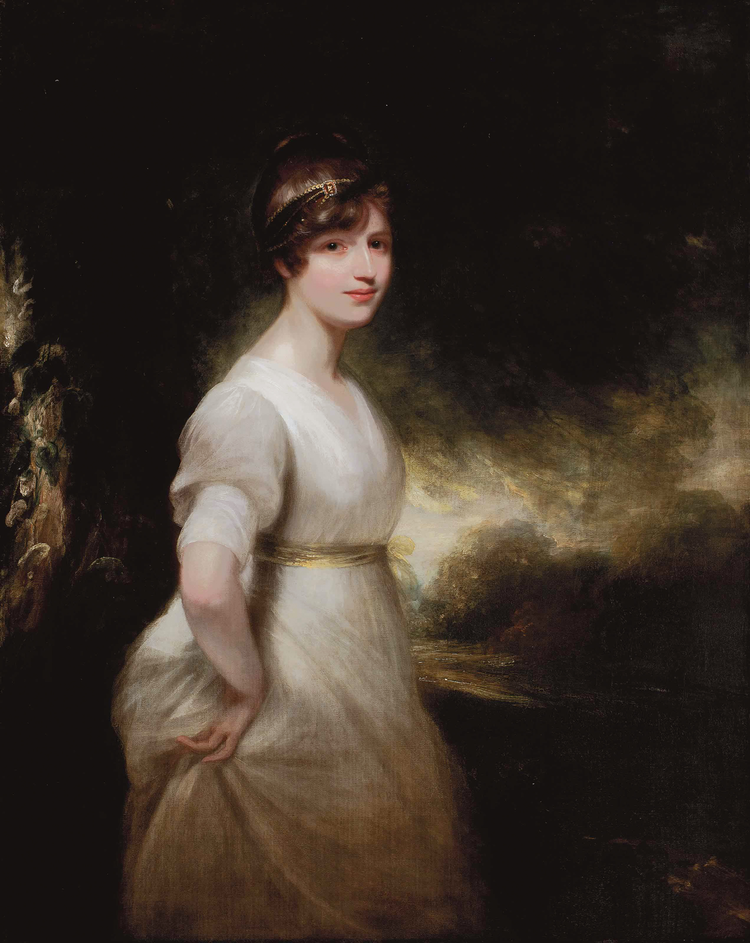 Elizabeth Charlotte Eden, Lady Godolphin (1780-1847) oil on canvas 127 x 101.6 cm